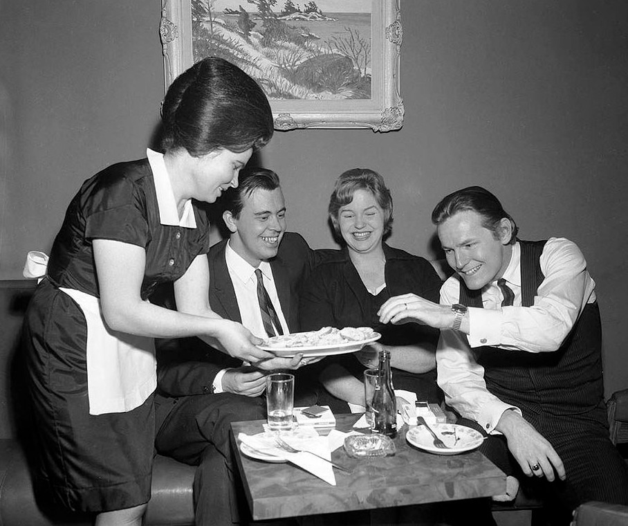 Singer-songwriter Gordon Lightfoot, right, at a record industry luncheon in Toronto, Ontario, Canada.